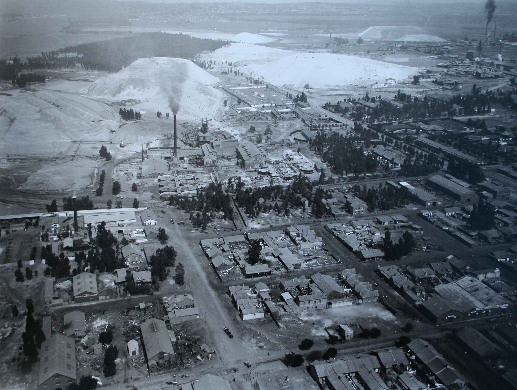 City and Suburban Gold Mine, Johannesburg, South Africa